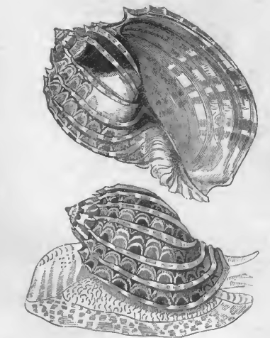 Ventricose harp (Harpa ventricosa) shell and animal. Harpa ventricosa is a synonym for Harpa cabriti" Lamarck, 1816[1] Harpa ventricosa is a synonym for Harpa davidis Röding, 1798[2] ↑ WoRMS (2009). Harpa ventricosa Lamarck, 1816. Accessed through the World Register of Marine Species at on 2013-06-07 ↑ WoRMS (2009). Harpa ventricosa Lamarck, 1816. Accessed through the World Register of Marine Species at on 2010-04-23